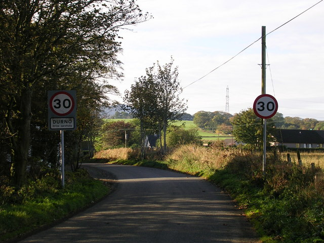 Entering Durno from Meikle Wartle